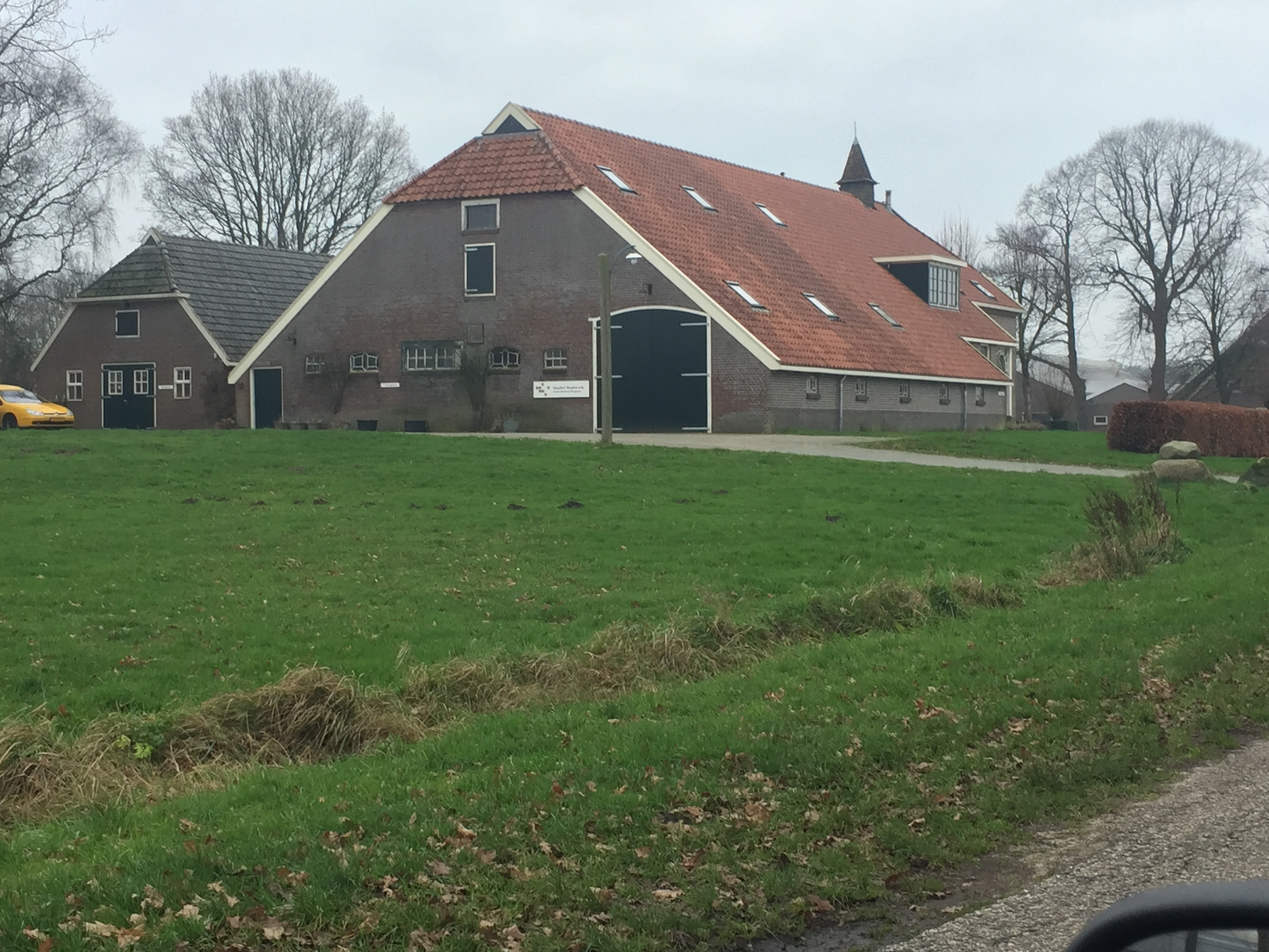 De farm at the Beilervaart 80 close to Beilen. In WO II the family of Lammert Zwanenburg, who was executed by the Germans, lived on the farm. It was a shelter for a number of jews. Also the traitor Geessien Bleeker was kept prisoner at the farm. Preacher and NSB-major Jacques Louis Brinkerink was together with his wife executed close to the farm